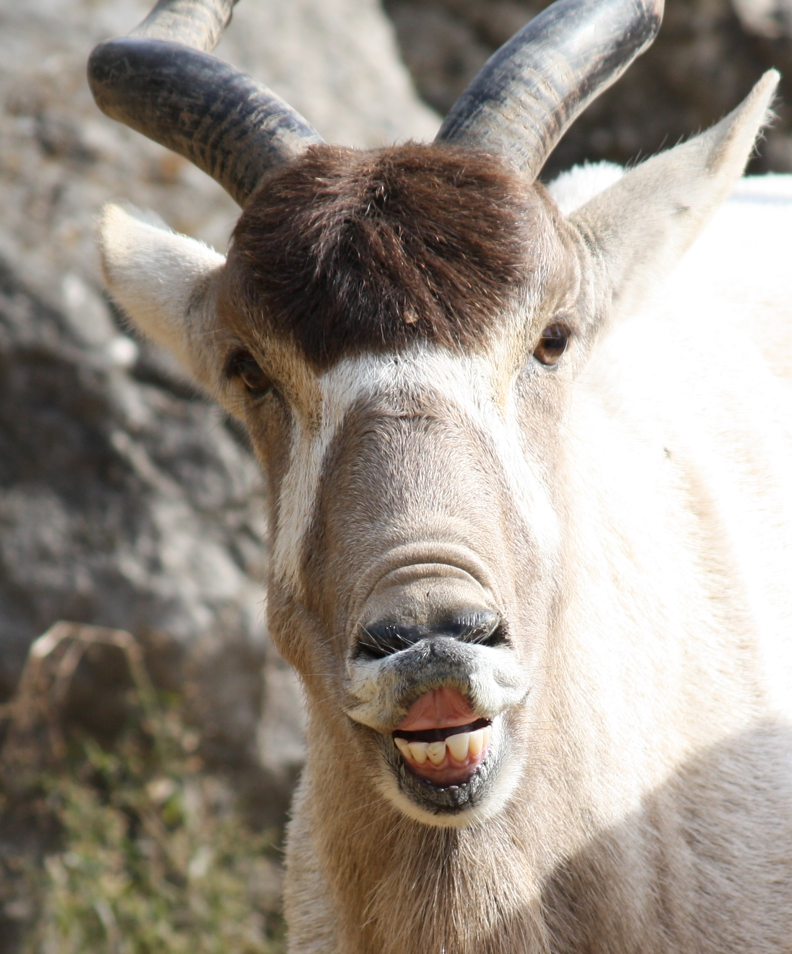 Addax Addax nasomaculatus at the Louisville Zoo